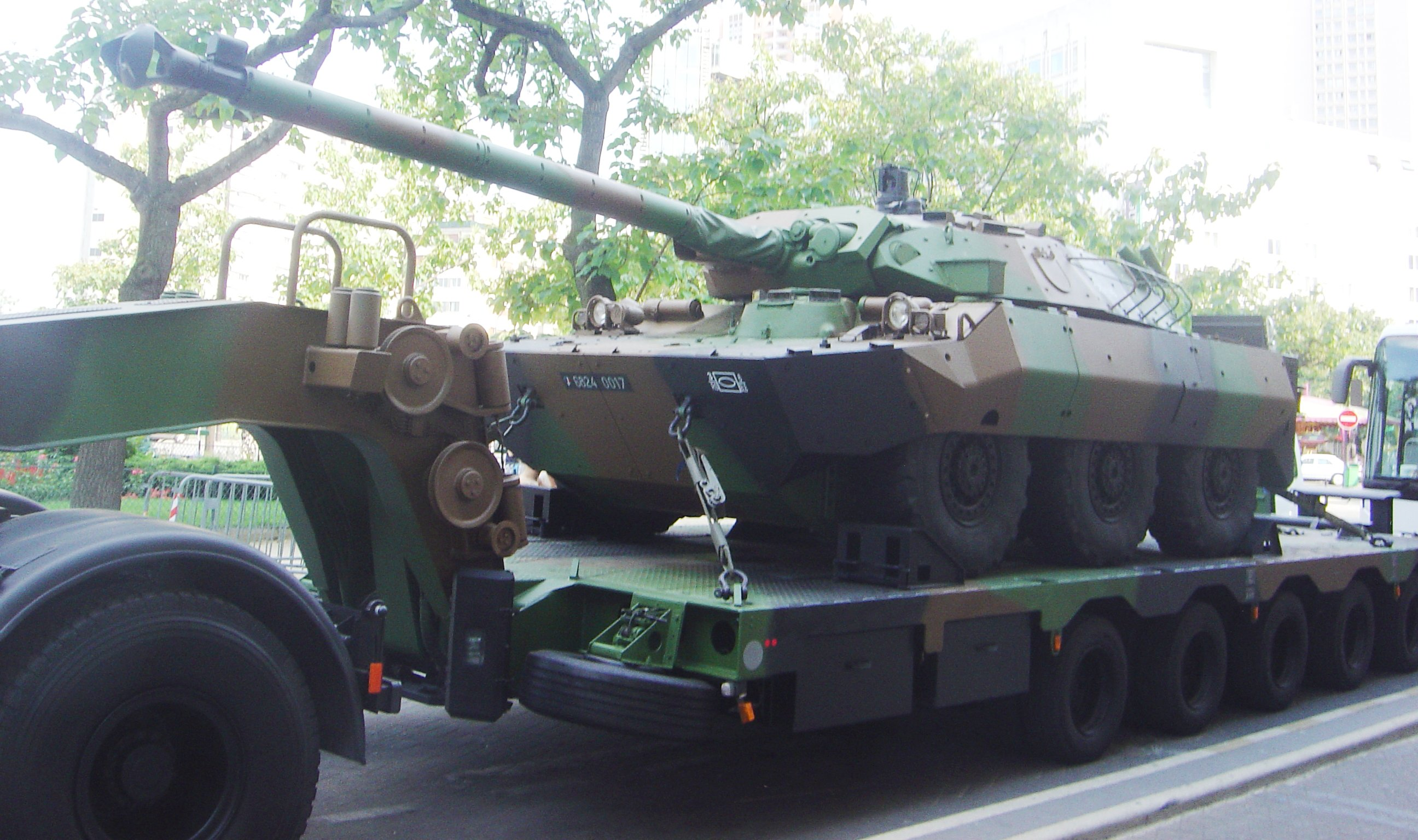 AMX-10 RC light tank, on a trailer July 14, 2005